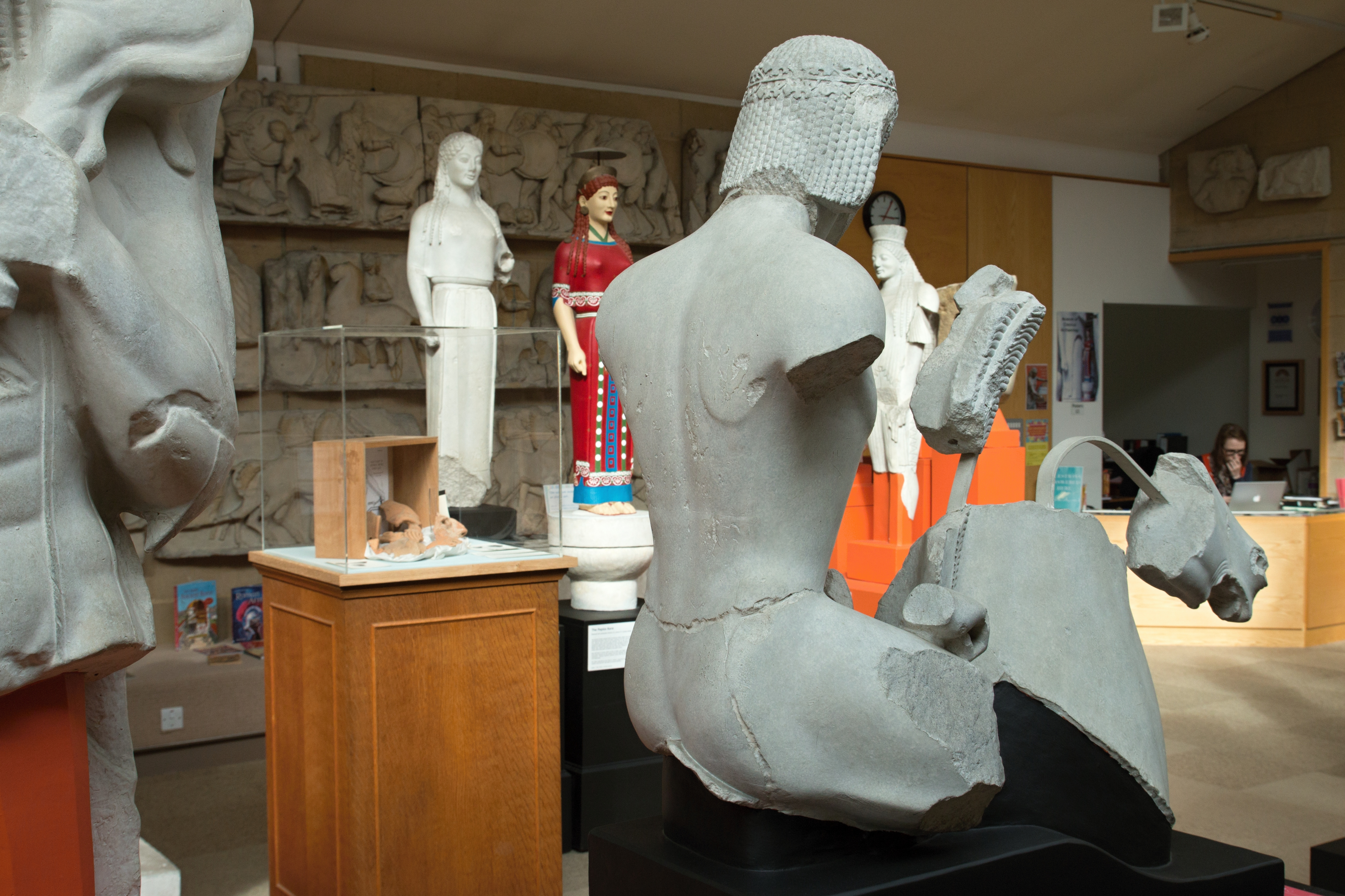 Plaster casts of archaic Greek sculpturues, Rampin rider In the foreground. Cambridge Museum of Classical Archaeology.